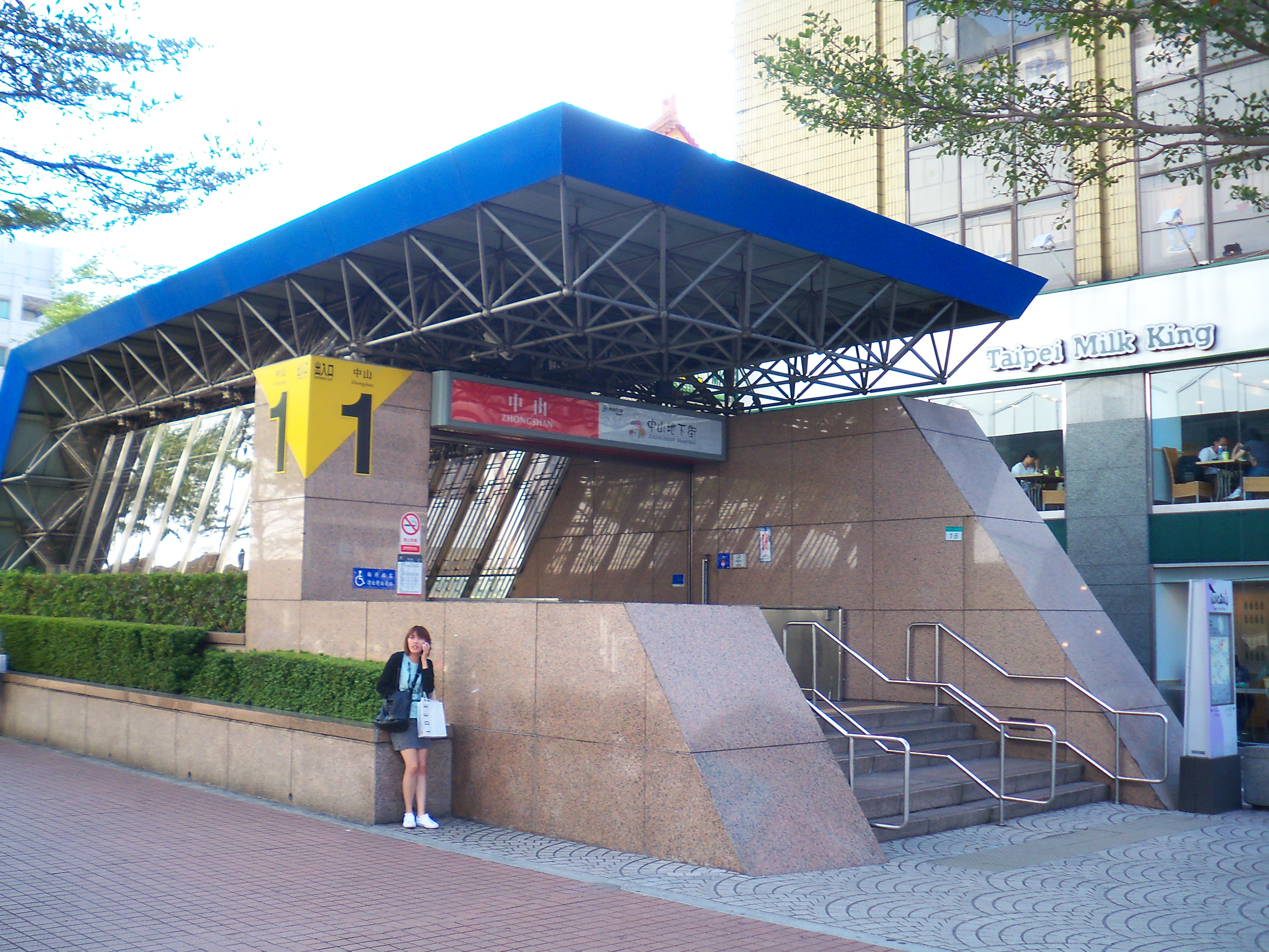 Exit 1, Zhongshan Station, Taipei MRT.